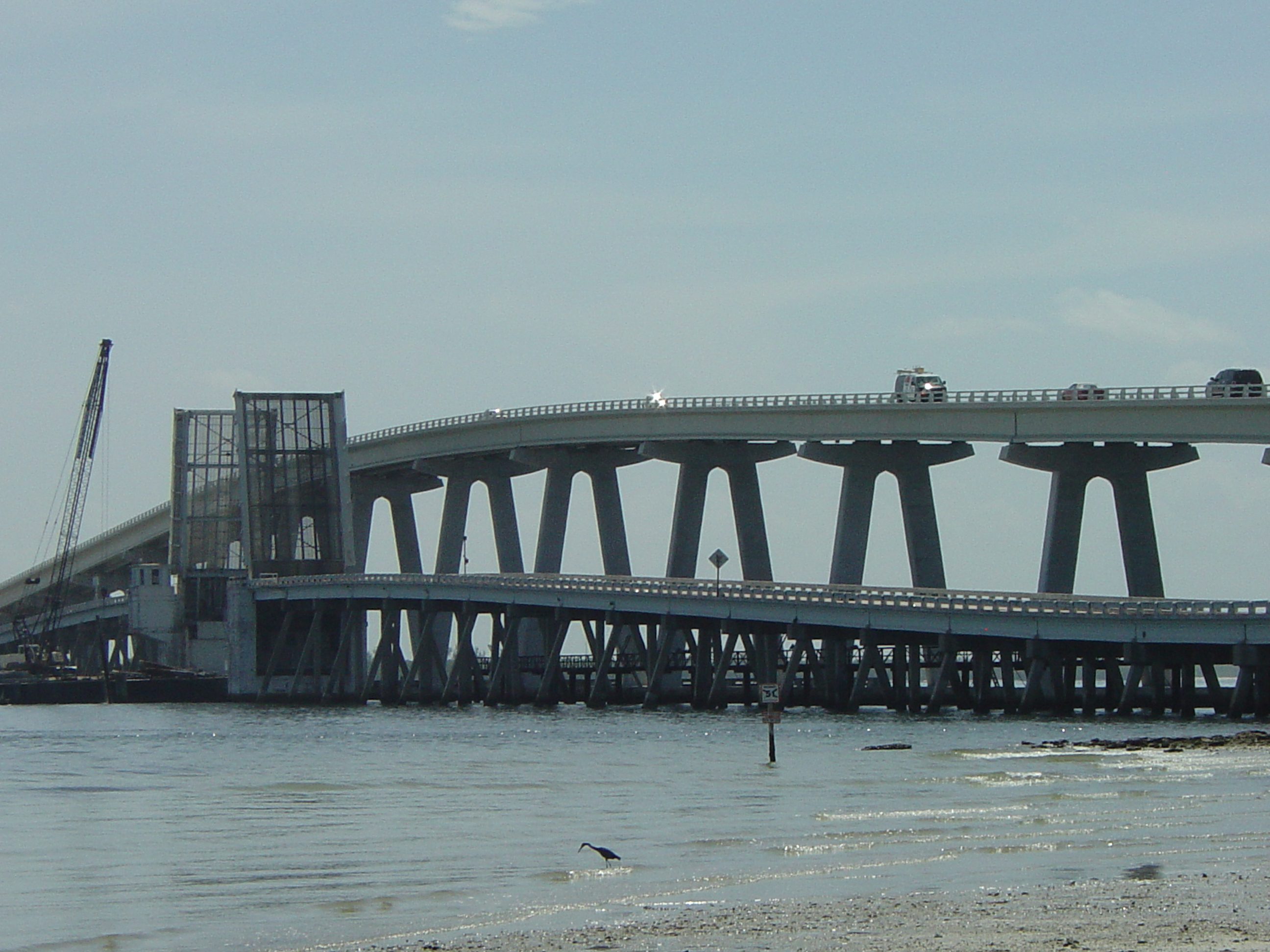 Bridge A (both old and new)